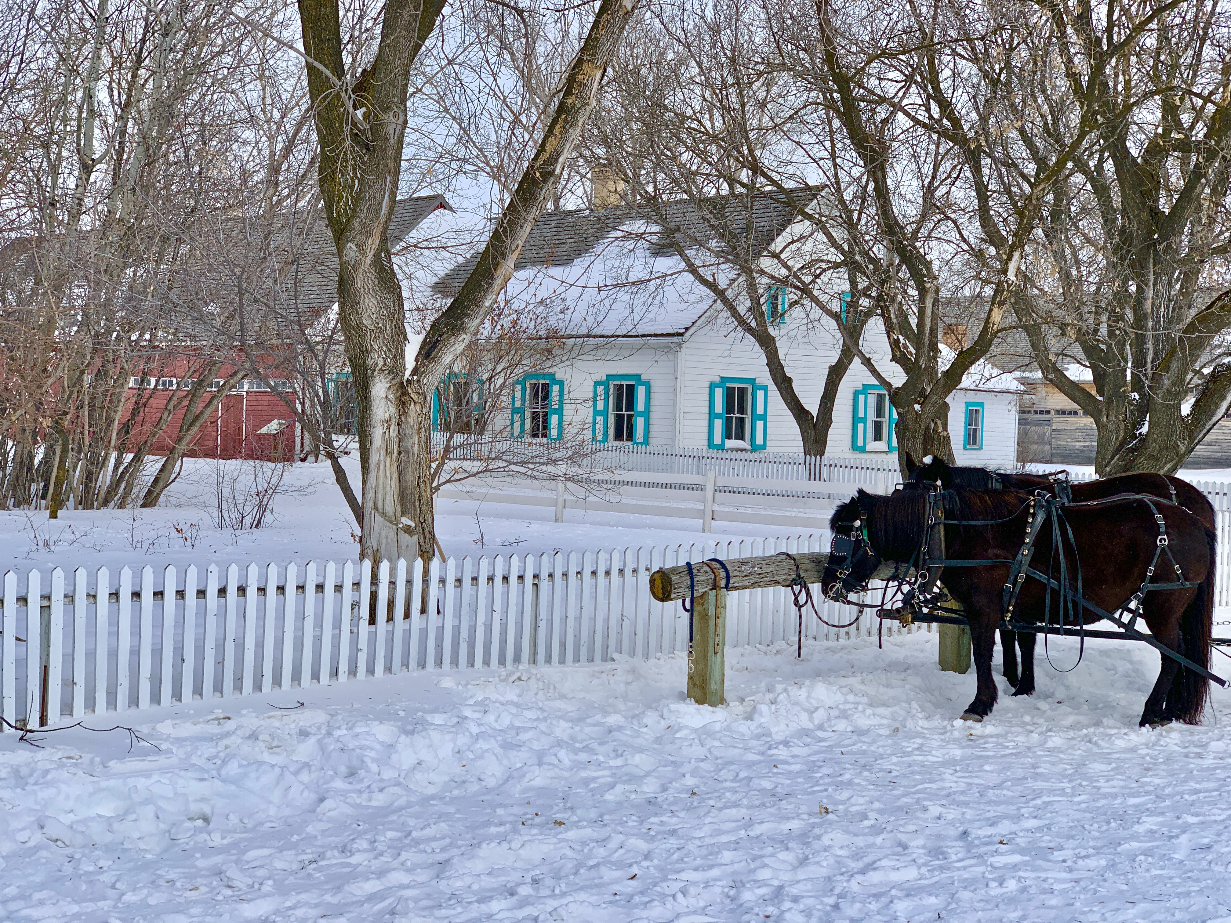 Horse and Mennonite housebarn at the Mennonite Heritage Village in Steinbach during winter